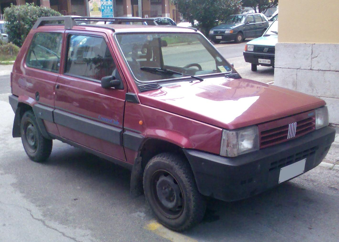 Classic Fiat Panda 4x4 Cross Country